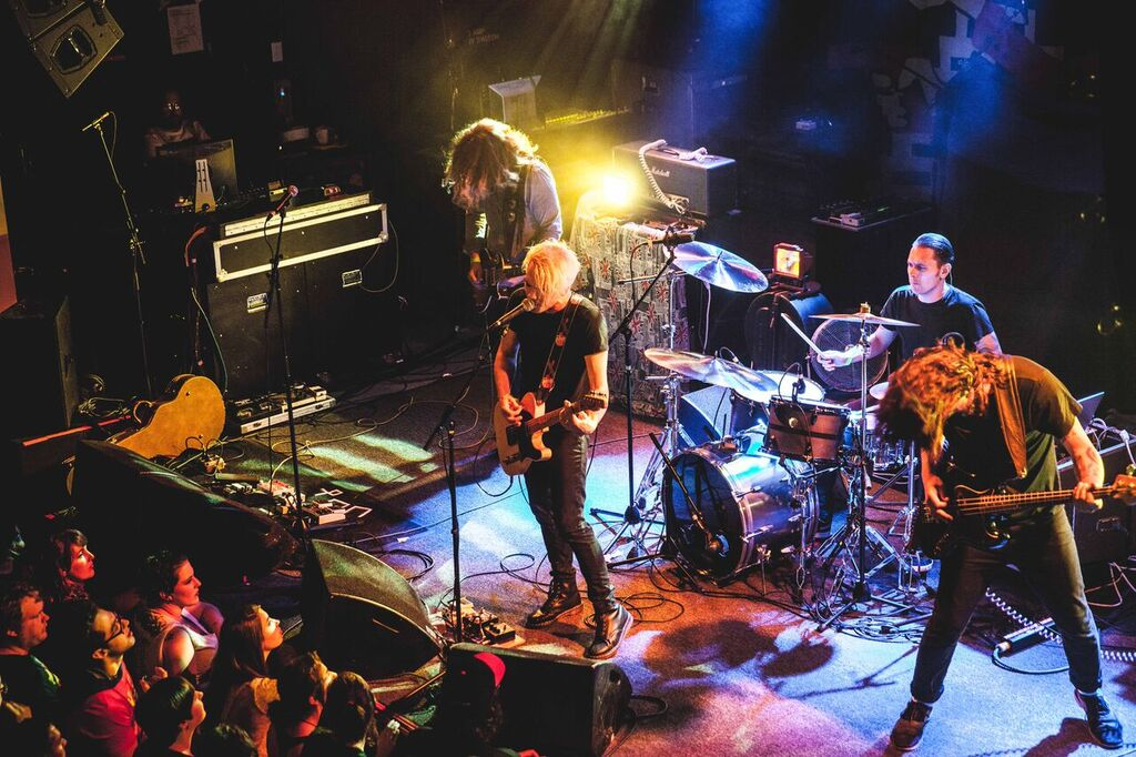 A photo of Badflower performing live in Massachusetts in 2016. Support act for Billy Talent